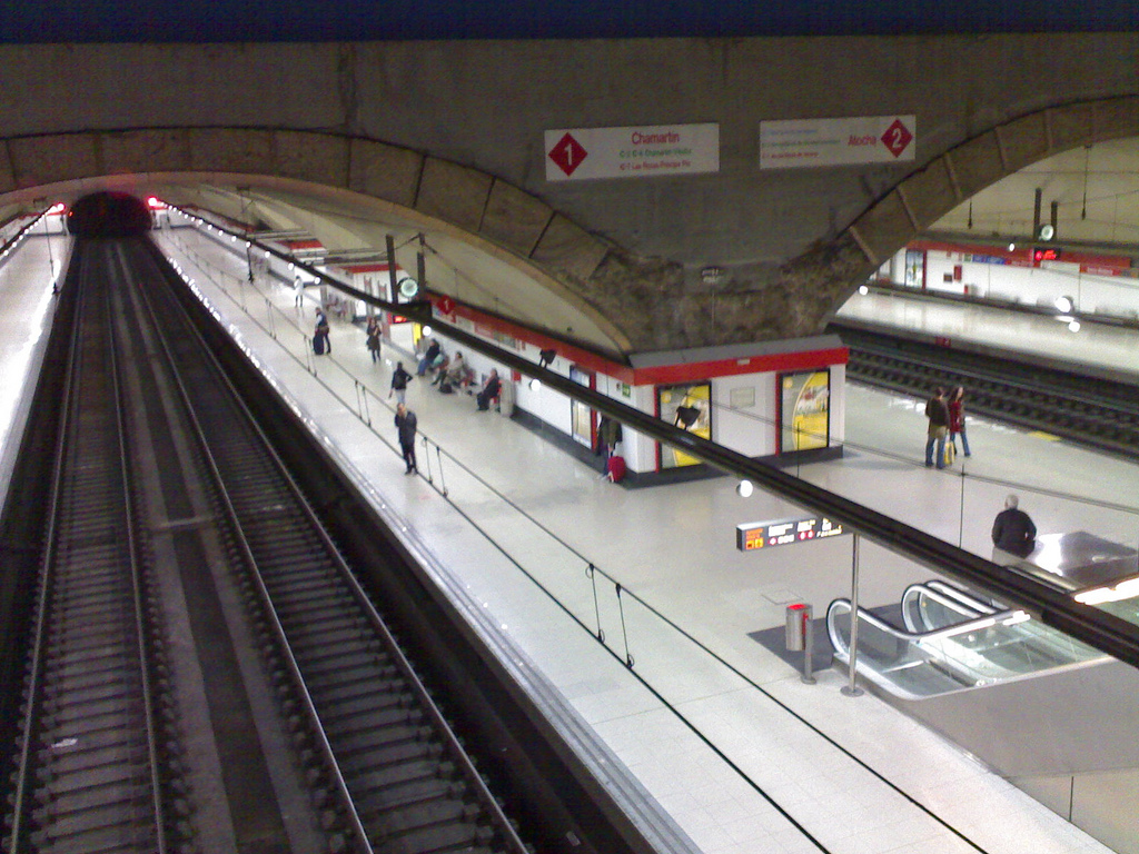 Nuevos Ministerios Metro and Cercanías station in Madrid (Spain).